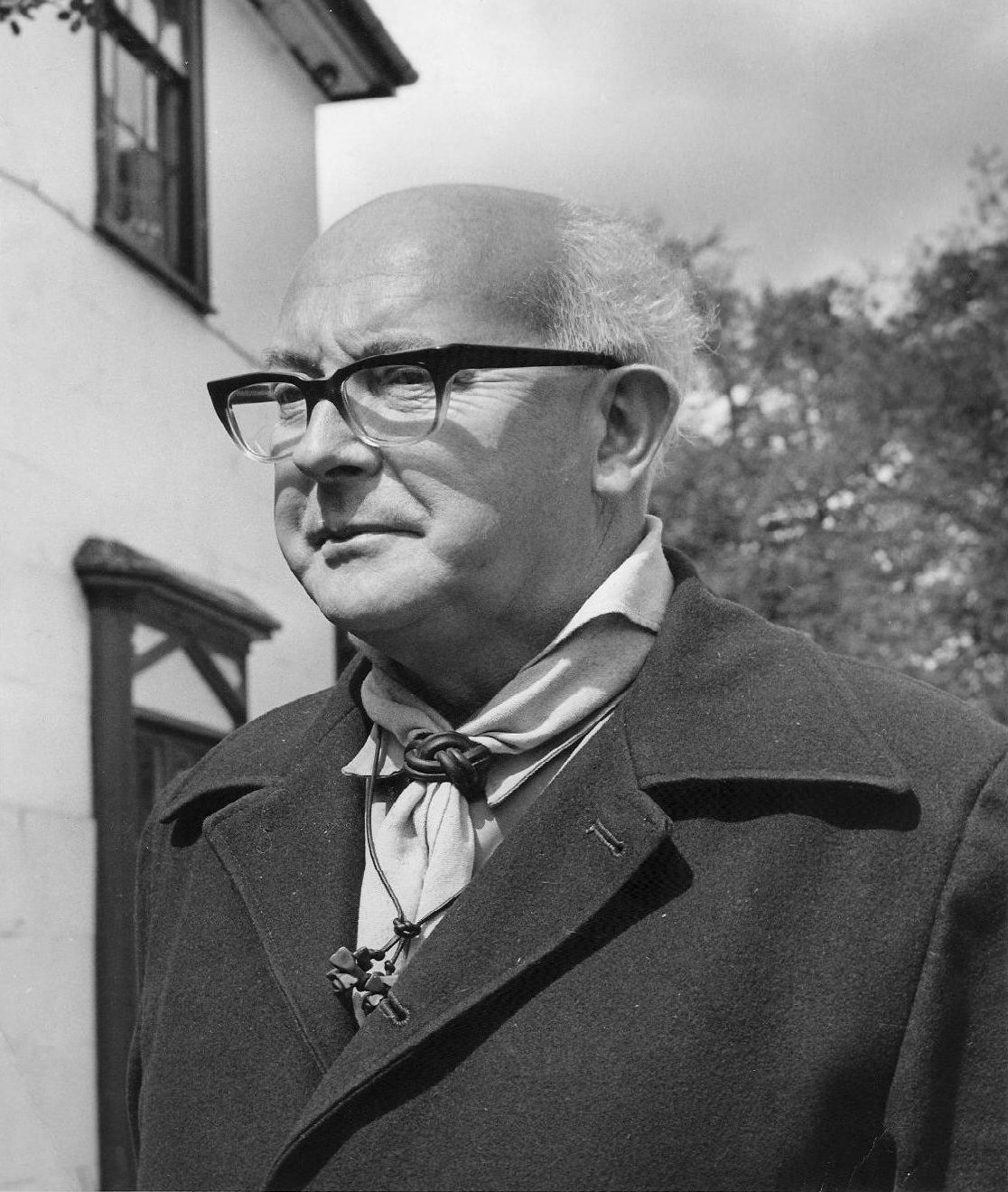 John Thurman, British Scouting notable, and awardee of the Bronze Wolf in 1959